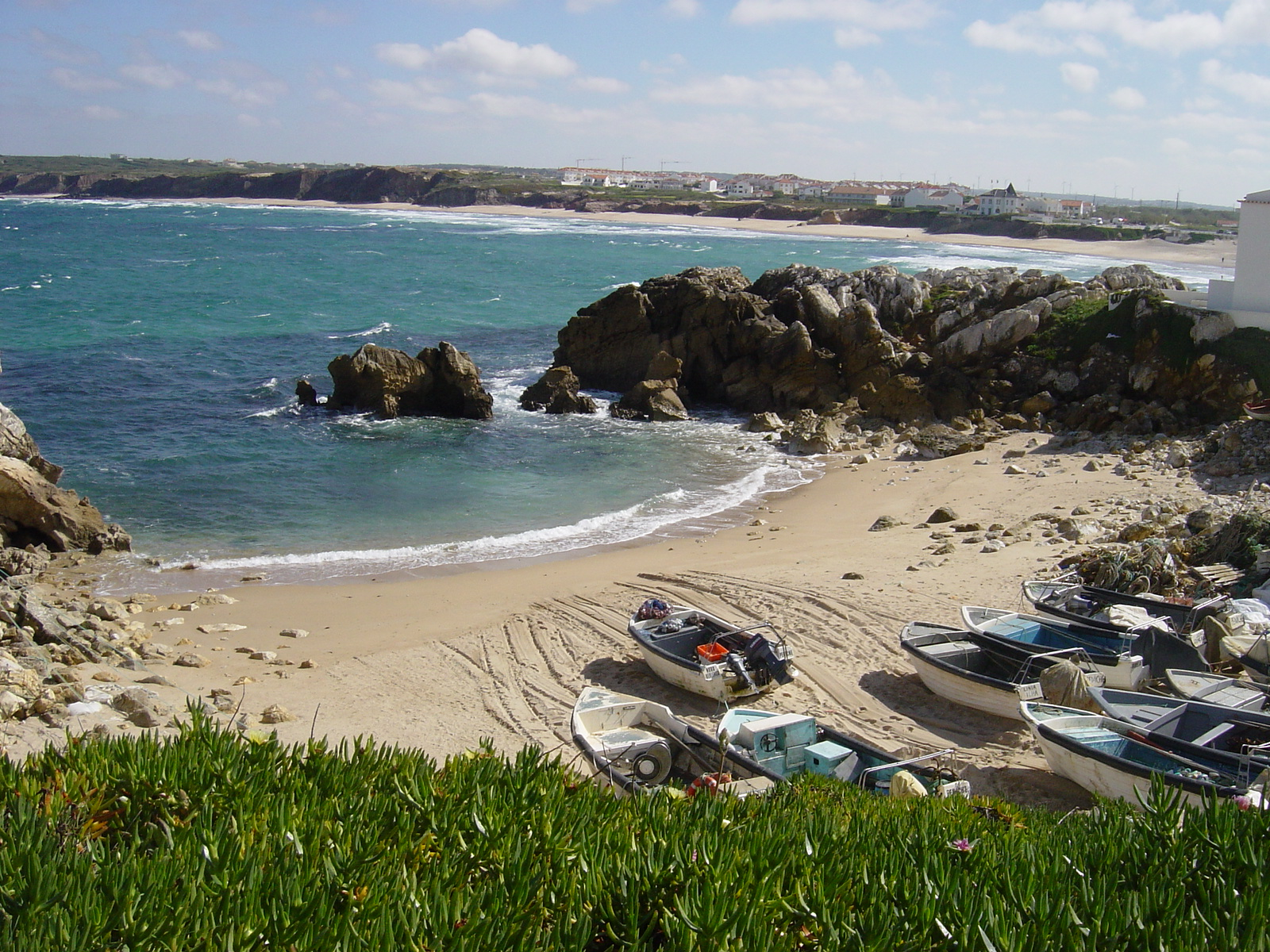 Baleal (Peniche). Recanto